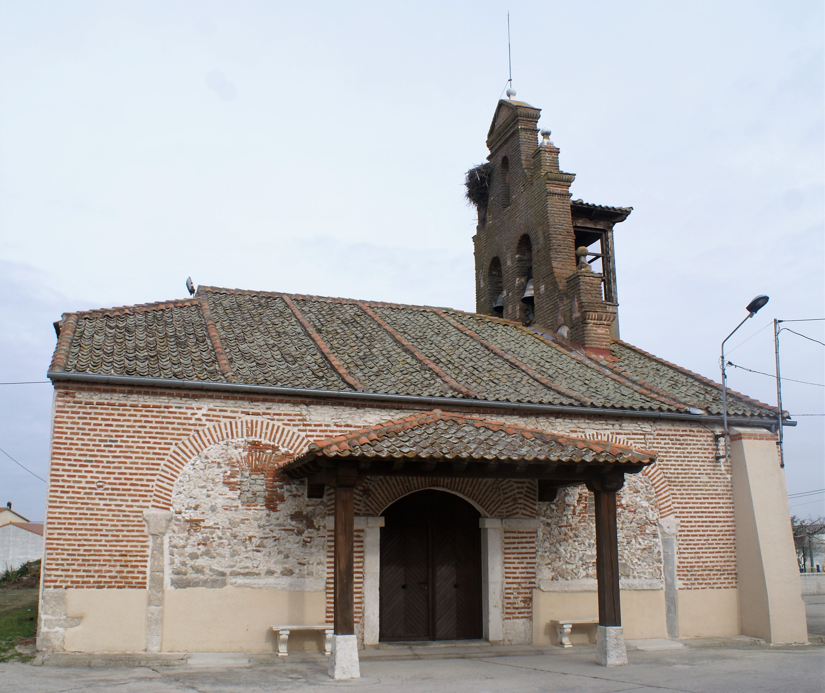 Church of St. Andrew, Chatún, Segovia, Spain.